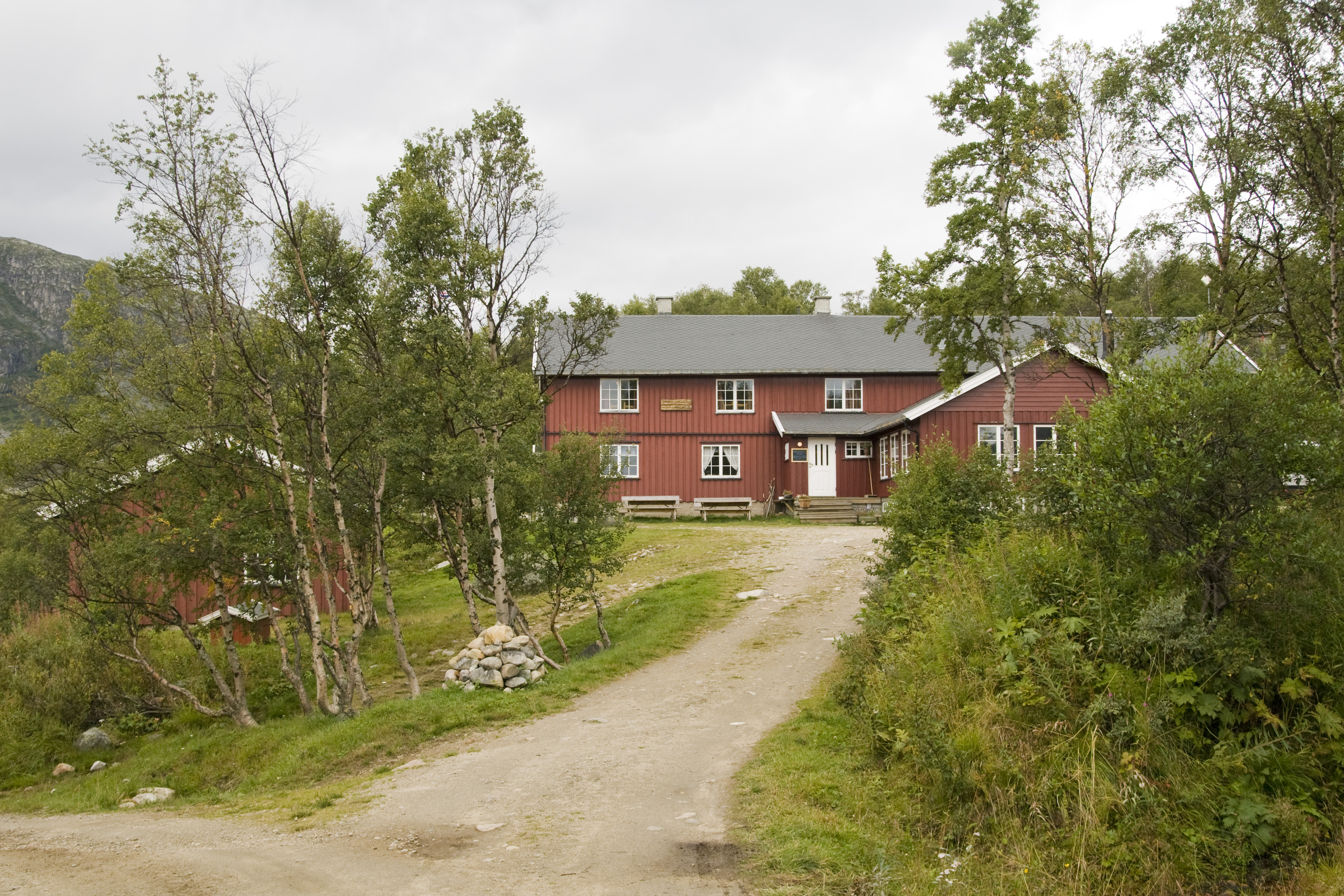 Mogen turisthytte, a manned cabin owned by DNT (the Norwegian Trekking Association) and located at Hardangervidda.